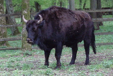 A Żubroń in The European Bison Demonstration Reserve, Białowieża, Poland.